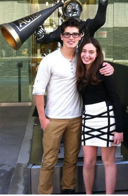 Gregg Sulkin posing for a picture with a fan in Las Angeles, California.